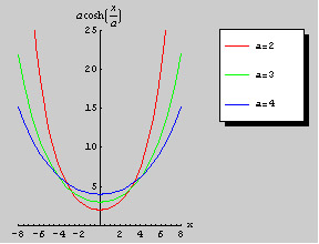 Graphic output Mathematica 4.1 L. Fransen (Livinus)